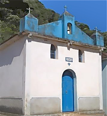 Church in Augusto Pestana, Minas Gerais, Brazil